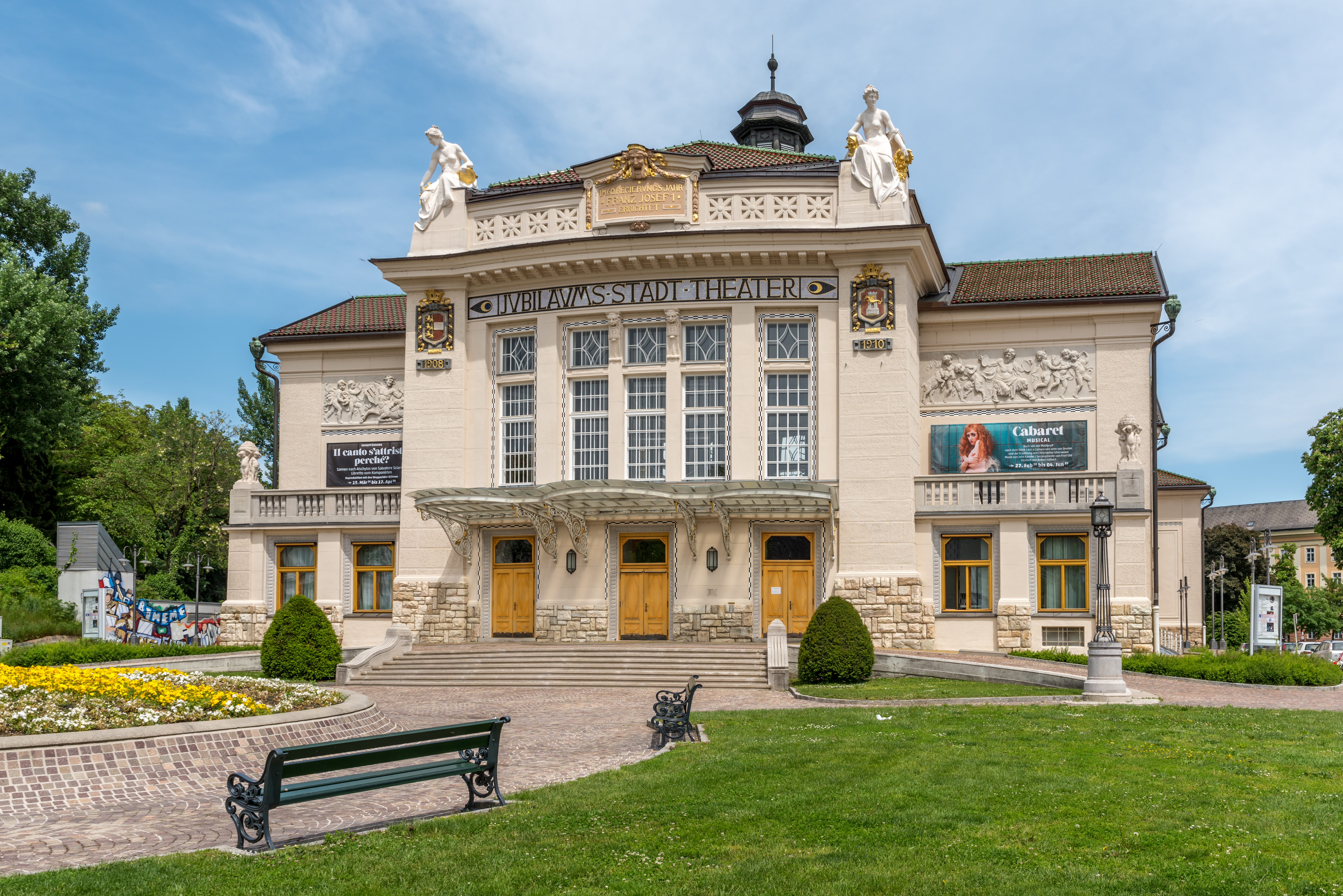 City theater (Architects: F. Fellner and H. Helmer) on Theaterplatz #4, inner city, statutary city Klagenfurt, Carinthia, Austria, EU